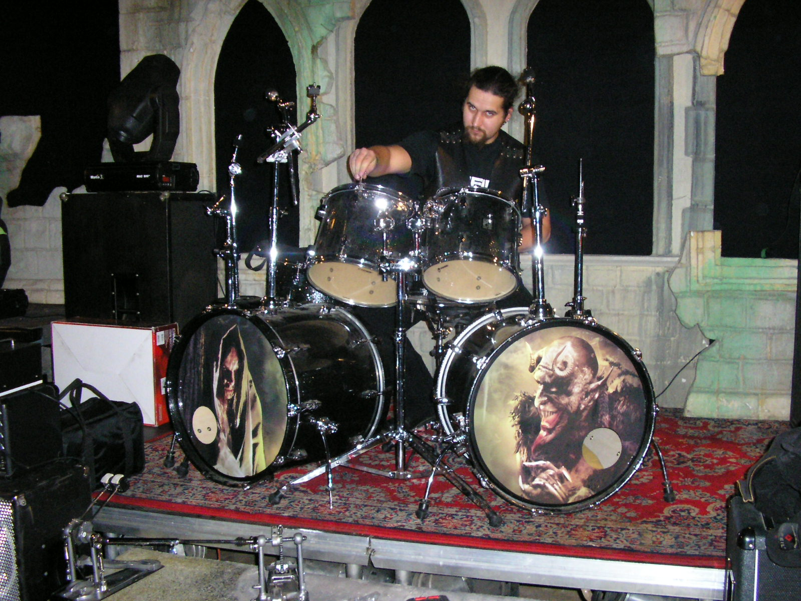 This photo was taken on Keep Wiseman Alive III in 2007. Judas and the Devil on the kickdrums.